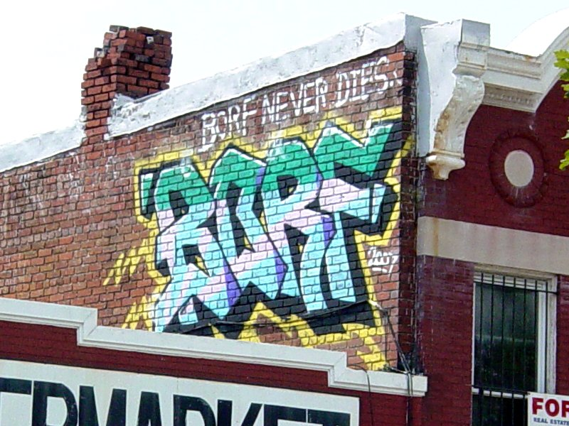 A large "Borf" tag adorns the side of the Bobby Fisher Memorial Building, at 1644 North Capitol Street NW in Washington DC.